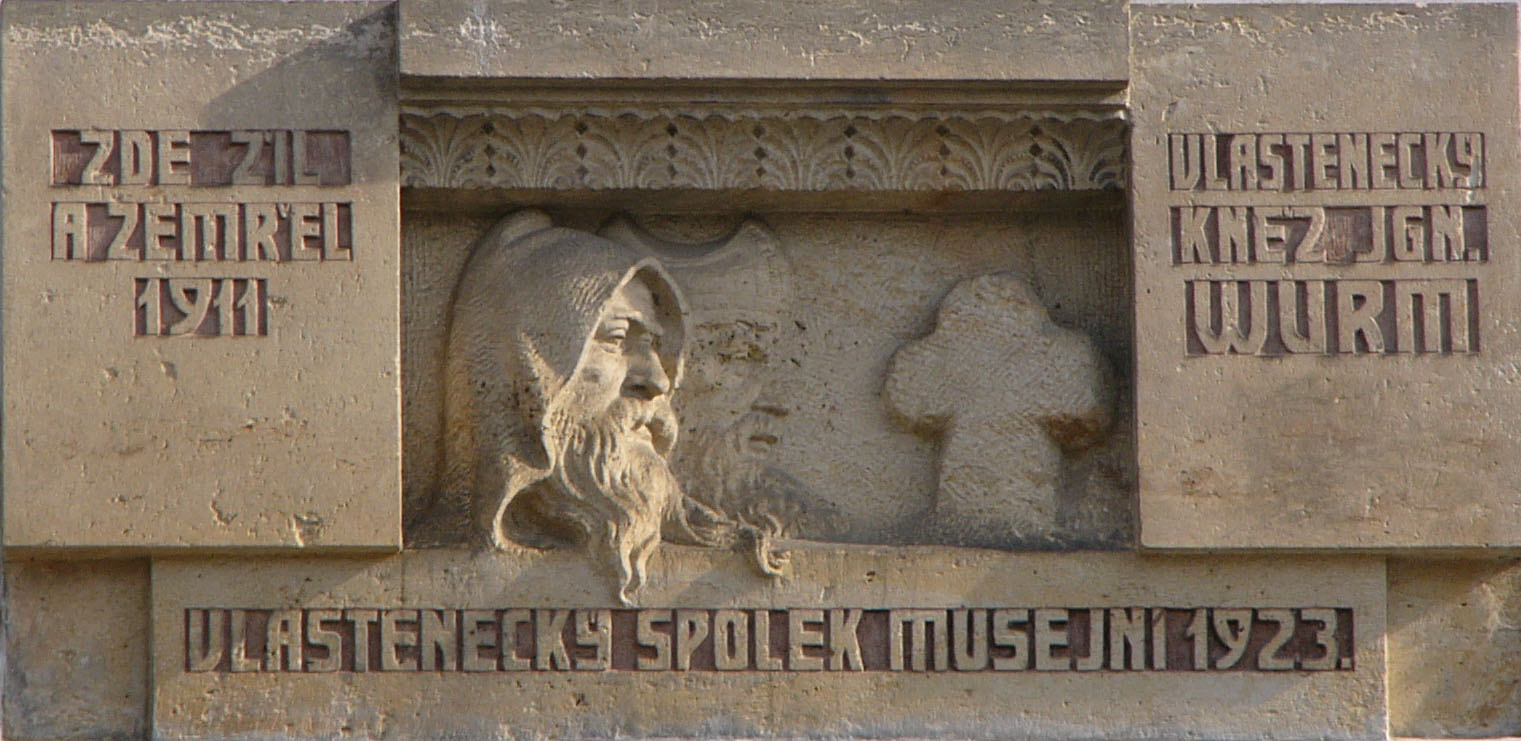 Memorial plaque of Ignát Wurm in Olomouc (Czech Republic ) by Julius Pelikán.